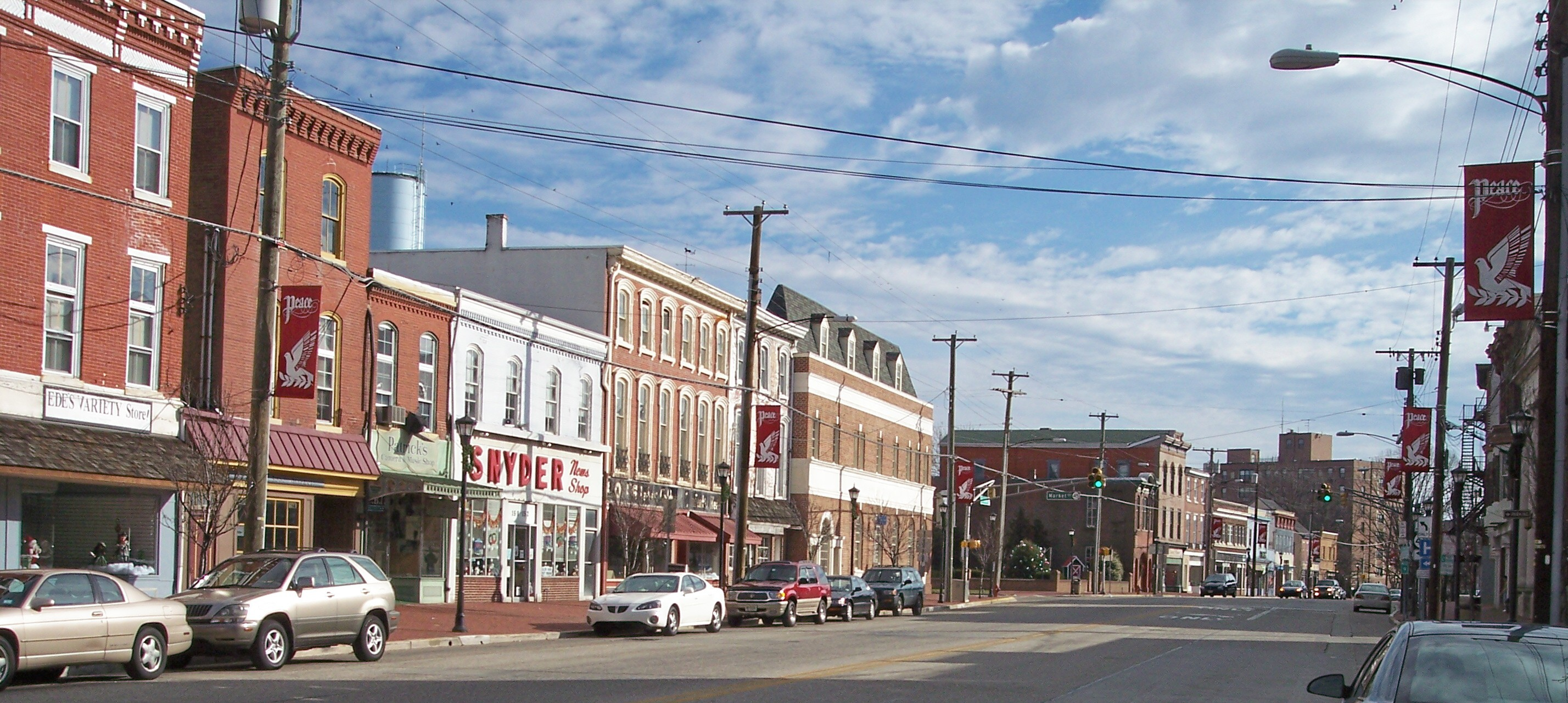 Broadway (New Jersey Route 49) in downtown Salem, New Jersey